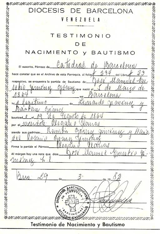 Testimony of birth and baptism of the Priest Dr. José Manuel Jiménez Gómez